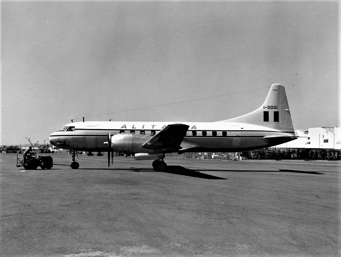 SDASM.CATALOG: 01_00093040 SDASM.TITLE: Convair 340 I-DOGI Alitalia N29477 SDASM.CORPORATION NAME: Convair SDASM.DESIGNATION: 340 SDASM.OFFICIAL NICKNAME: ConvairLiner SDASM.ADDITIONAL INFORMATION: Convair 340 I-DOGI Alitalia N29477 SDASM.TAGS: Convair 340 I-DOGI Alitalia N29477 PUBLIC COMMONS.SOURCE INSTITUTION: San Diego Air and Space Museum Archive